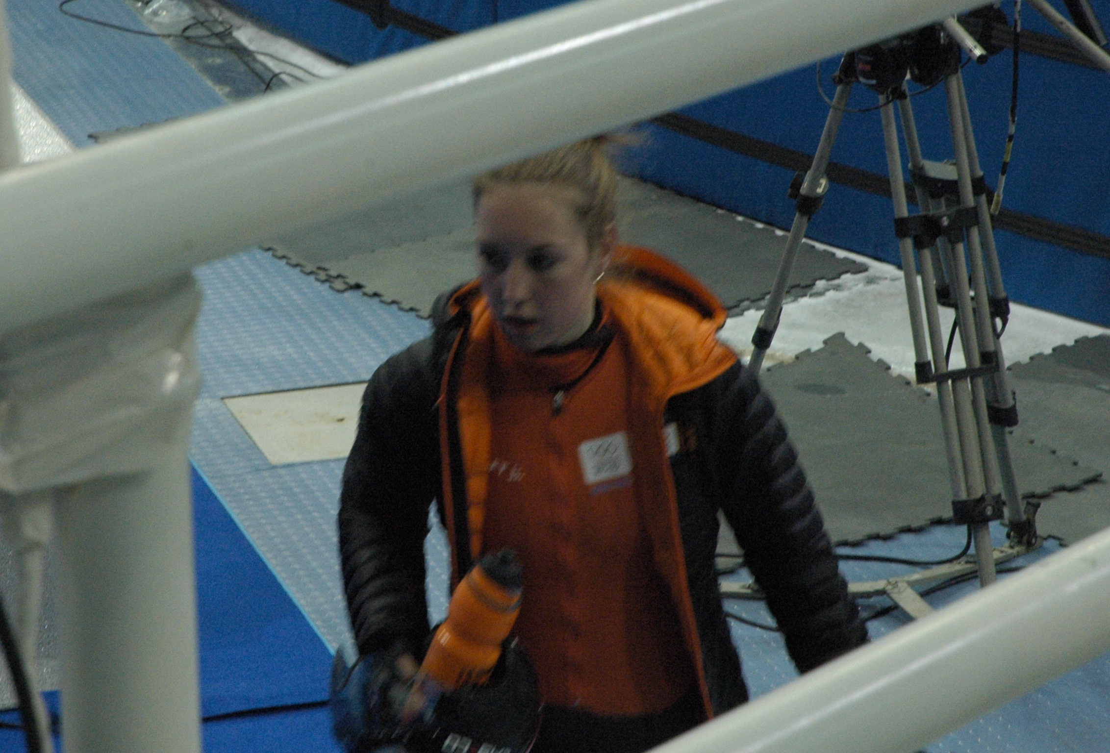 Short track speed skating training 17 February, 2014 Winter Olympics: Lara van Ruijven